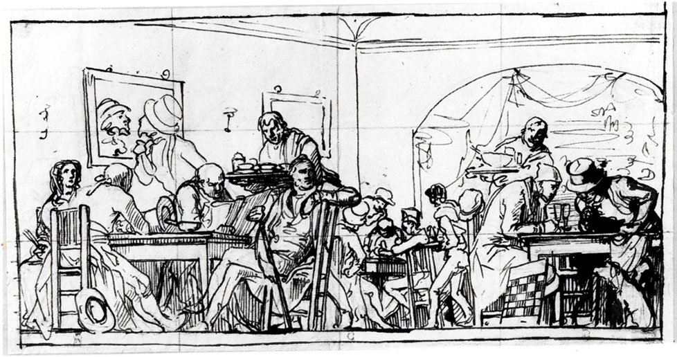 "Chess in the Café de Levante players"; sketch of the painting by Alenza to decorate in front of door lift Café de Levante.